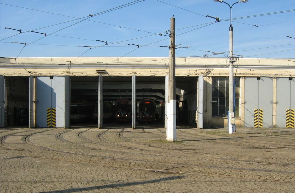 Tram depot Wrzeszcz in Gdańsk.